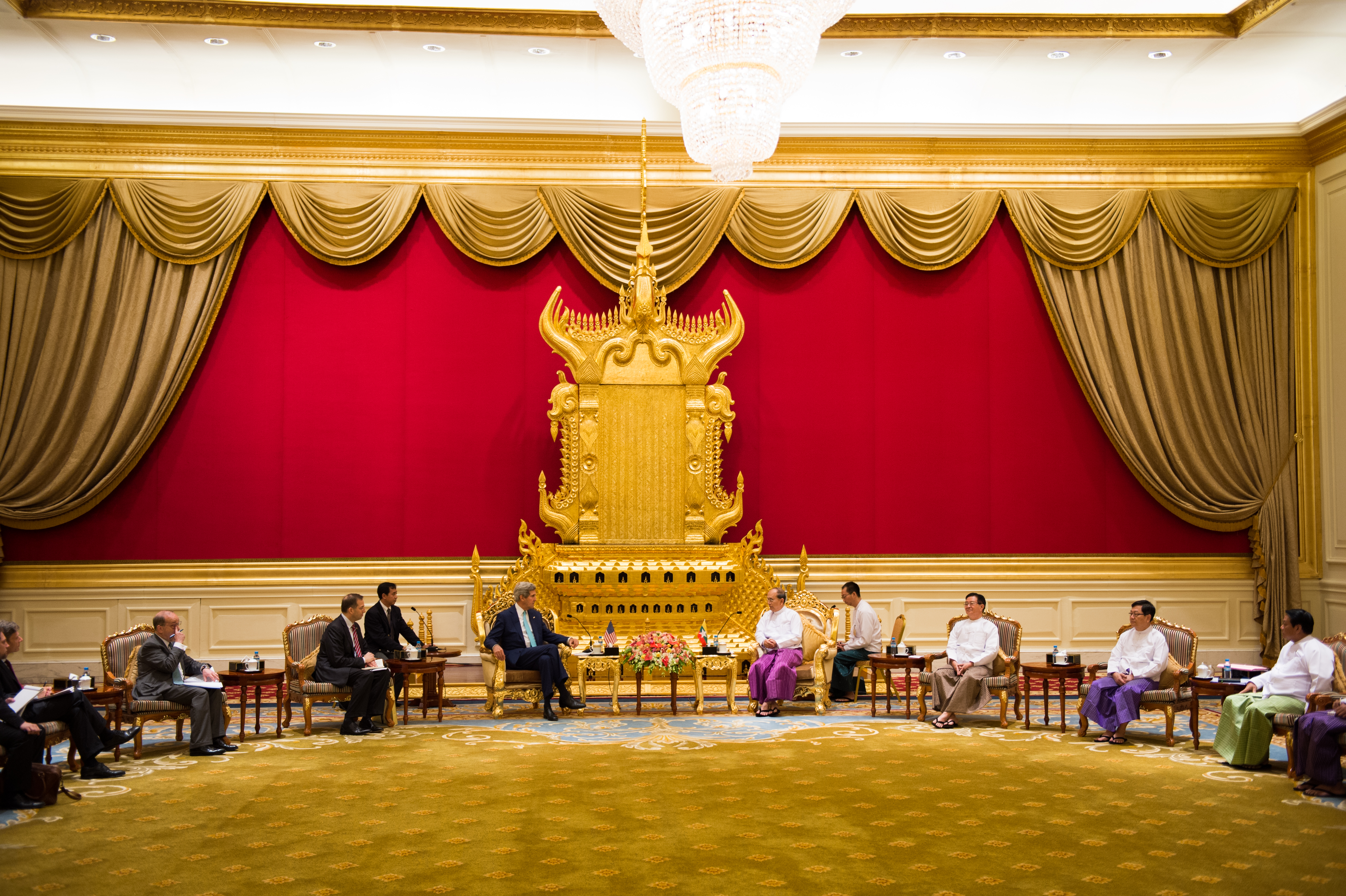 Naypyitaw, Burma (August 9, 2014) U.S. Secretary of State John Kerry greets Burma's President Thein Sein before their meeting at the Presidential Palace. [State Department photo by William Ng/Public Domain]